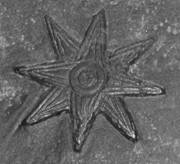 Detail of a kudurru (stele) of King Melishipak I (1186–1172 BC), showing a version of the ancient Mesopotamian eight-pointed star symbol of the goddess Ishtar (Inana/Inanna), representing the planet Venus as the morning or evening star.